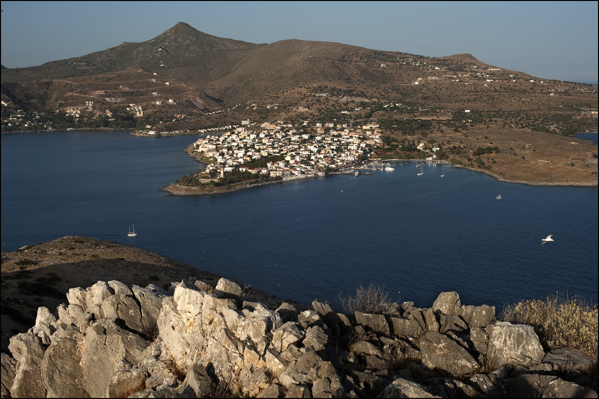 Panoramic view of Perdika village, Aegina. This is the view of Perdika from the Moni island (neighbor island of Aegina).